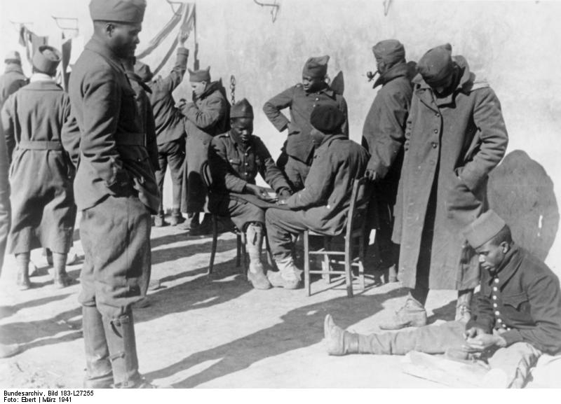 Rough Translation: In occupied france: prisoner-of-war camp Poitiers. In the spare time, the least sunbeam is utilized. This is especially important for the colored captives.